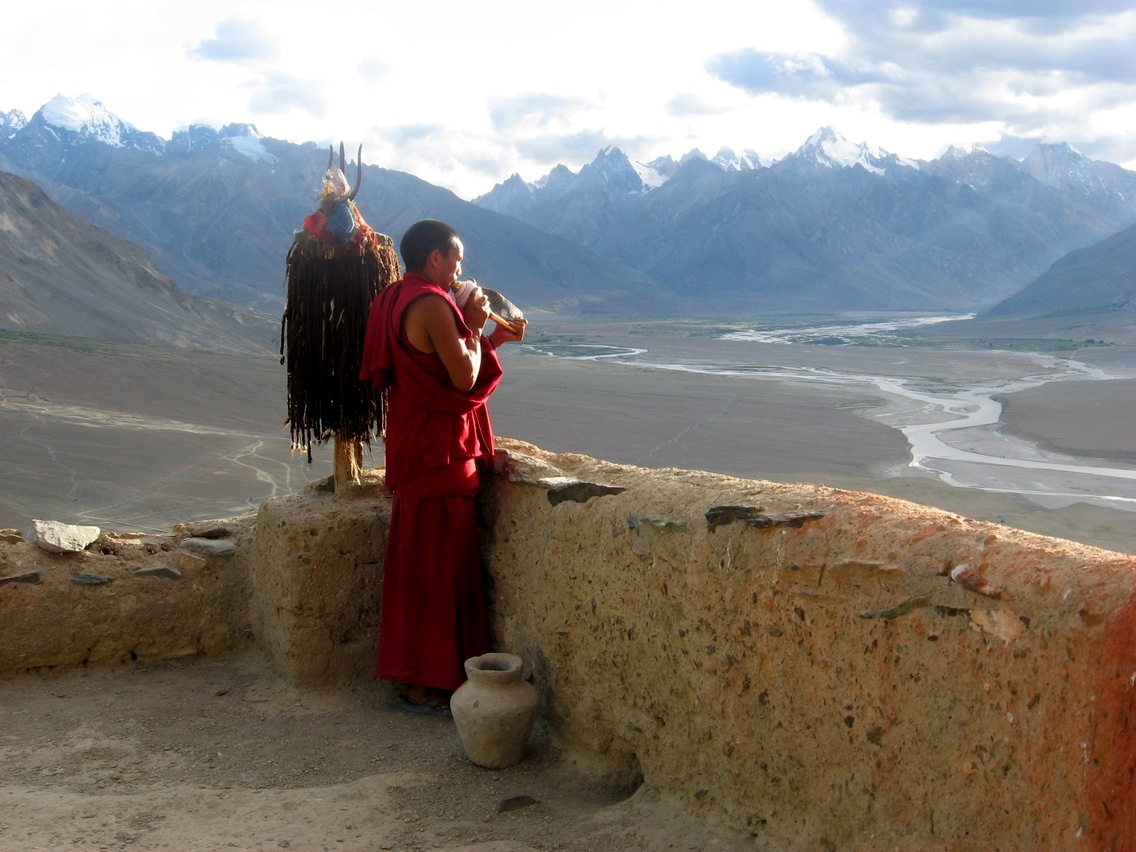 Sunset ceremony, Stongde gompa, Zanskar, Jammu & Kashmir, India